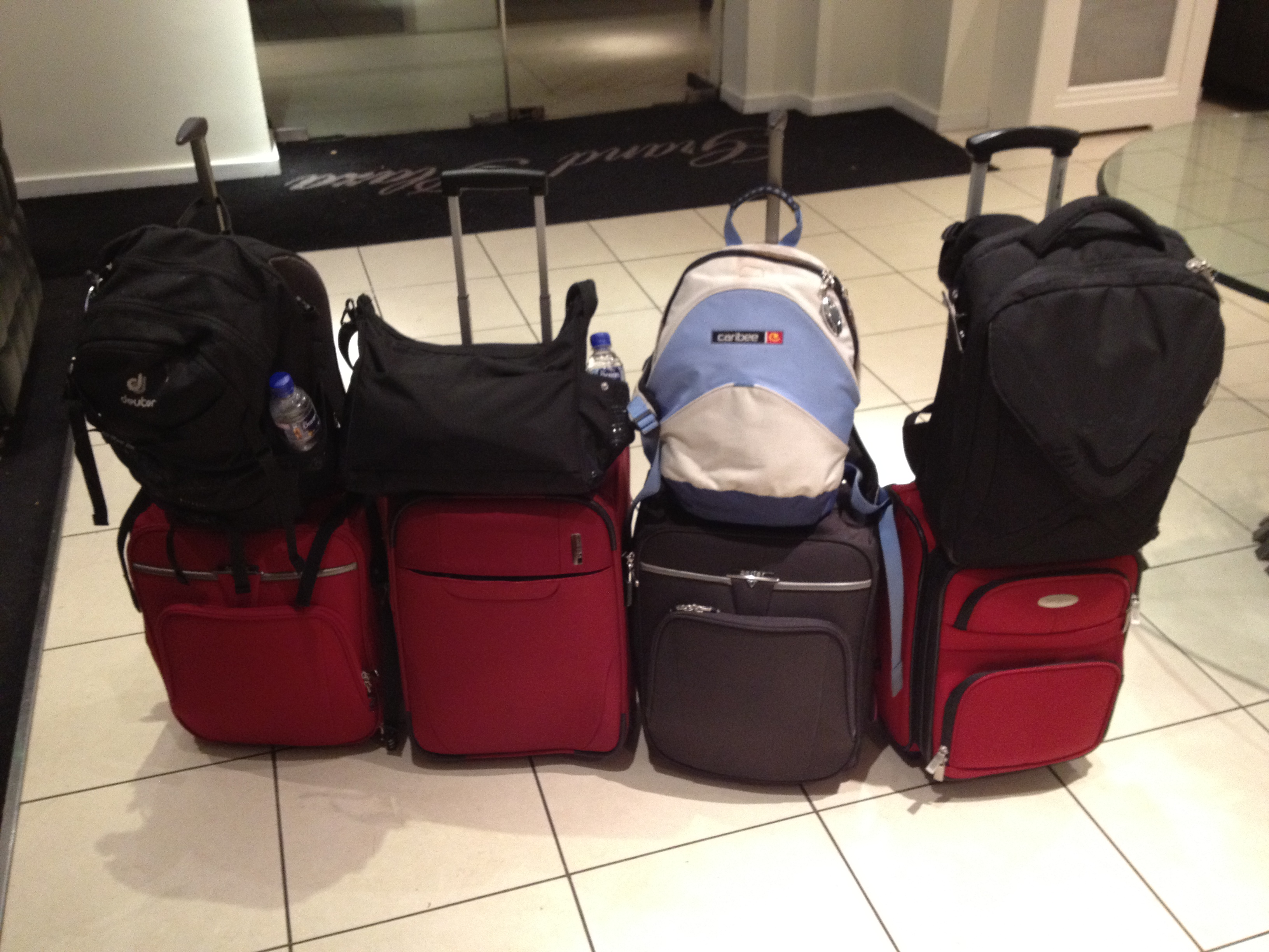 One small carry-on suitcase and a backpack each for seven weeks, ten cities and five countries. Scale is a bit hard to work out, but the blue and cream backpack fitted comfortably on Mr9's back when he went to daycare as a three-year-old.